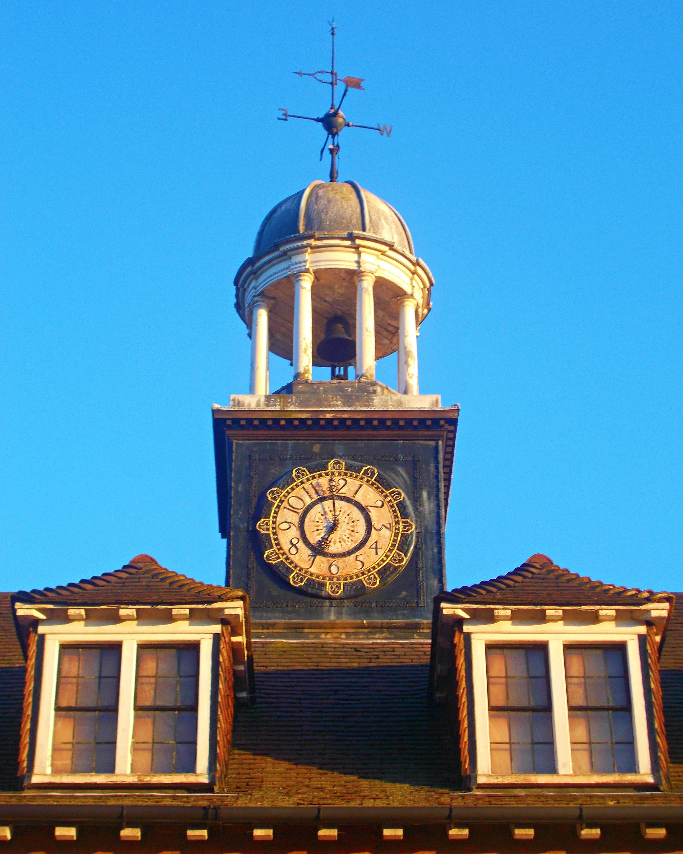 The Sutton Adult School and Institute opened in 1910 and 1911 in a large Edwardian building in Benhill Avenue. It later became the Thomas Wall Centre, named after the area's benefactor of Wall's sausage and ice cream fame.